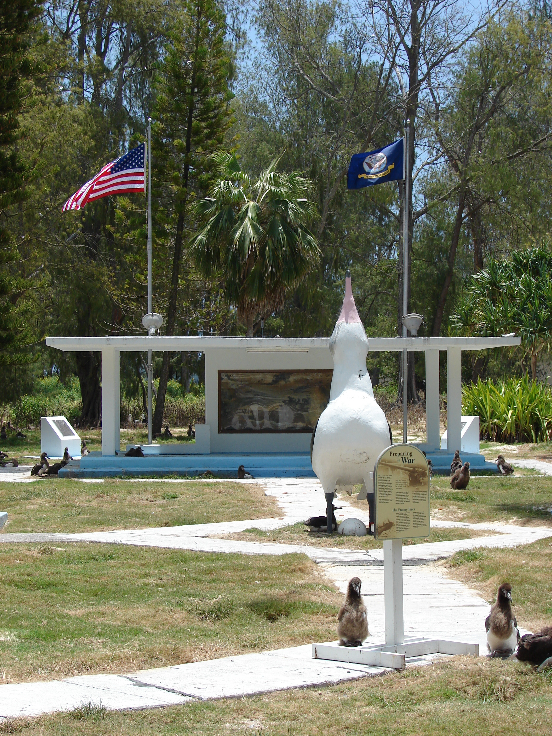 Pritchardia sp. (habit with Memorial gooney statue and Laysan albatross chicks). Location: Midway Atoll, Midway Memorial Sand Island